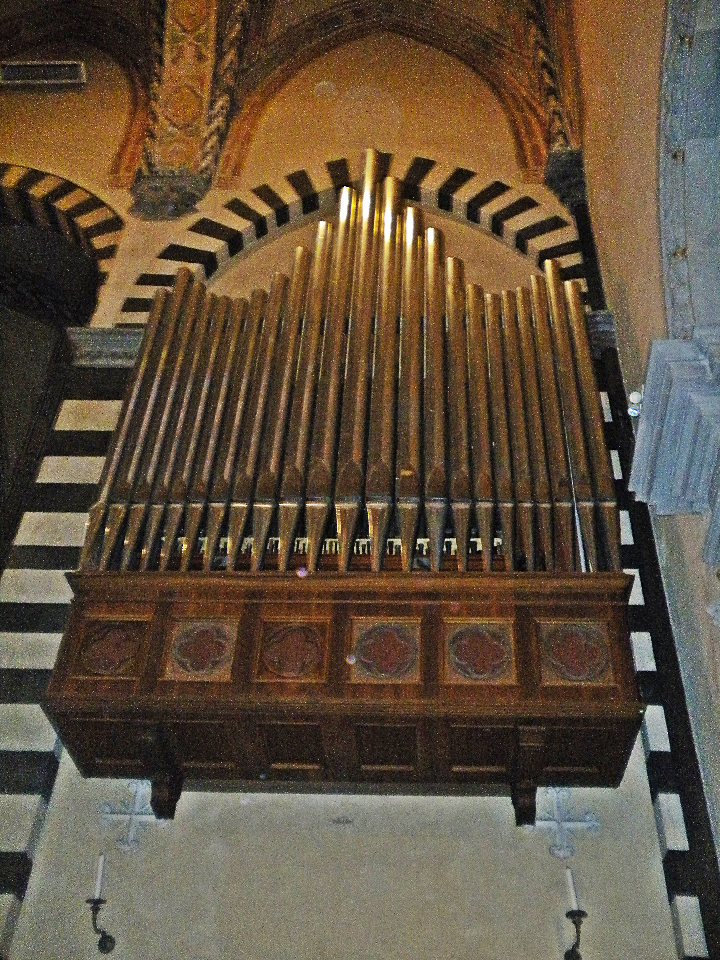 organ